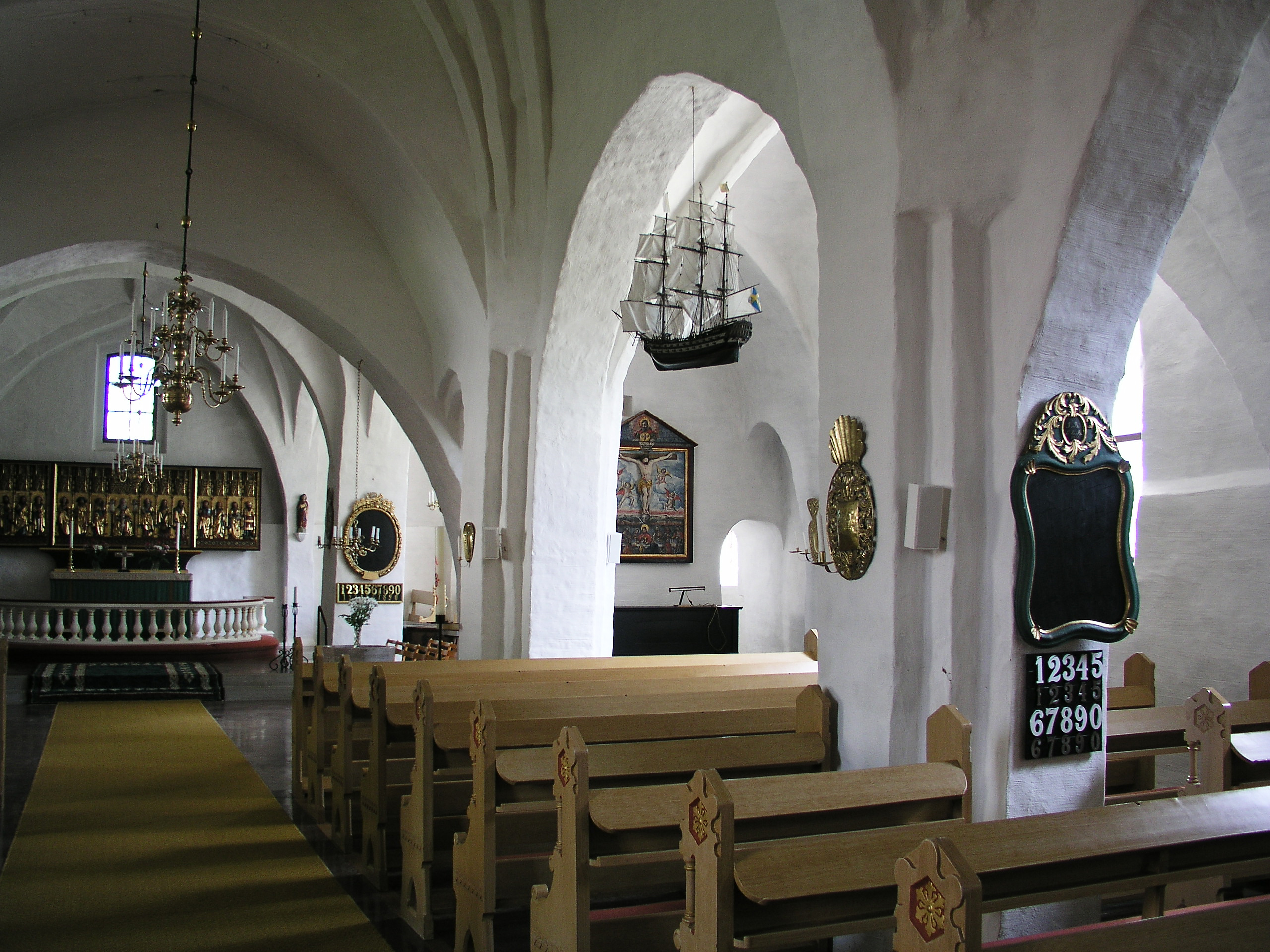 Drothems kyrka, Söderköping. Kyrkbänk. The picture was taken the 30 of June 2003 by Håkan Svensson (Xauxa). (replaces old version Bild:DrothemInterior.jpg)